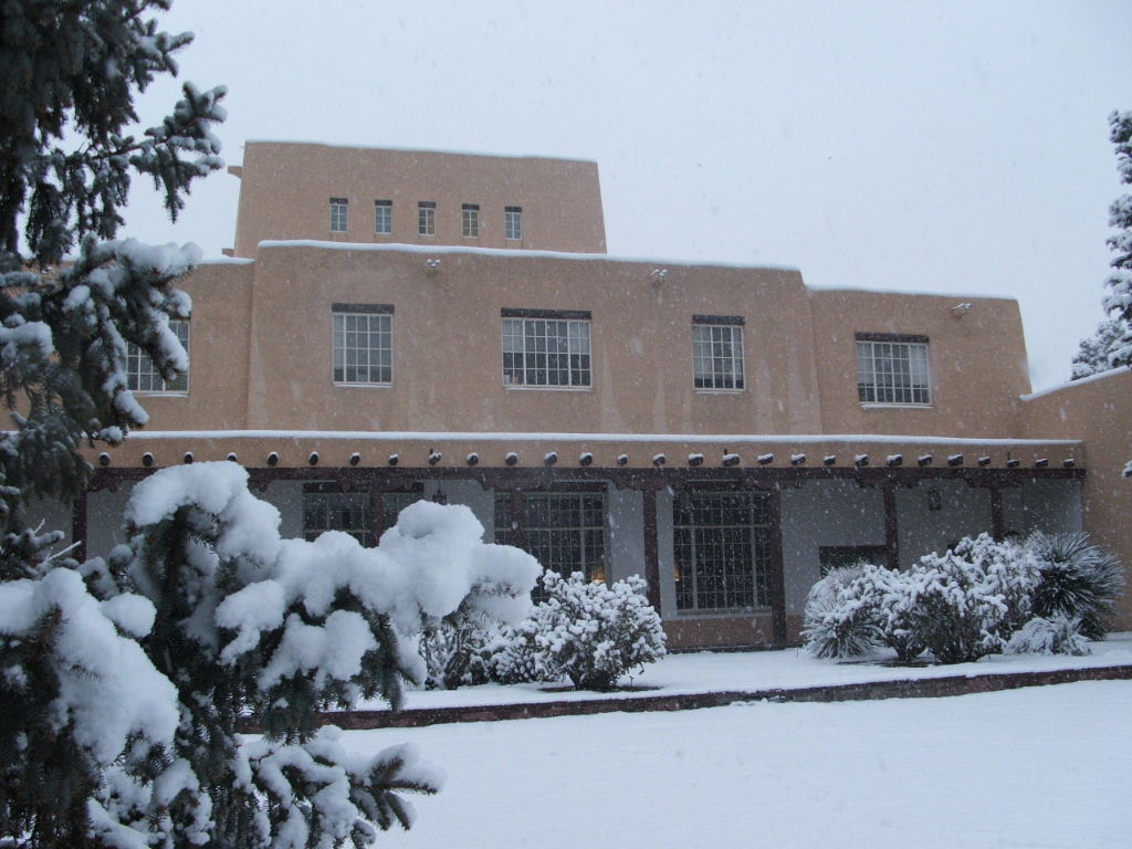 A Pueblo Revival Style building, at The University of New Mexico, during a winter snowfall.